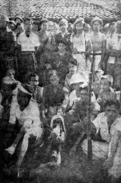 Sudirman being sworn in at the national palace